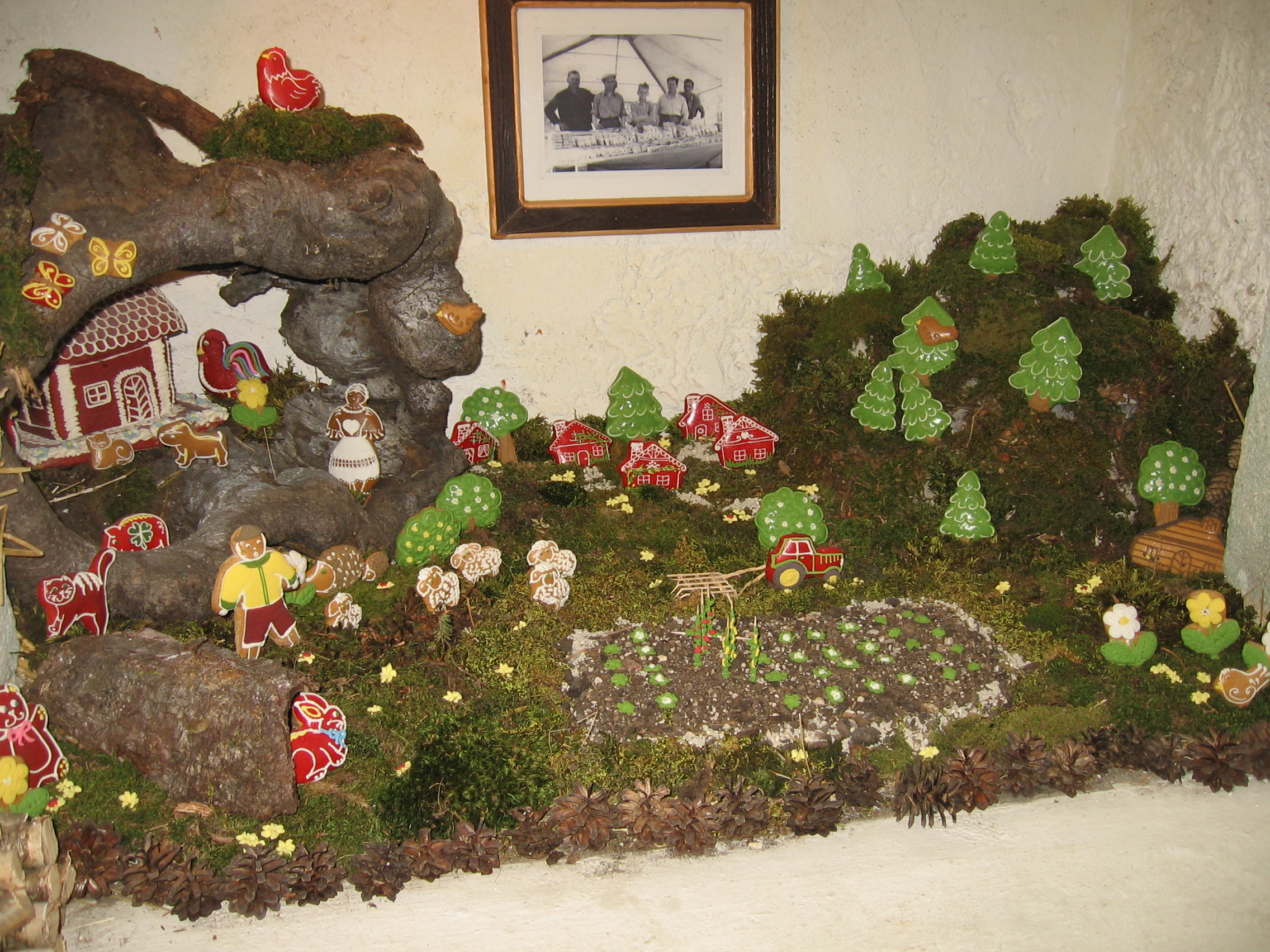 Lectar Museum in Radovljica, Slovenia